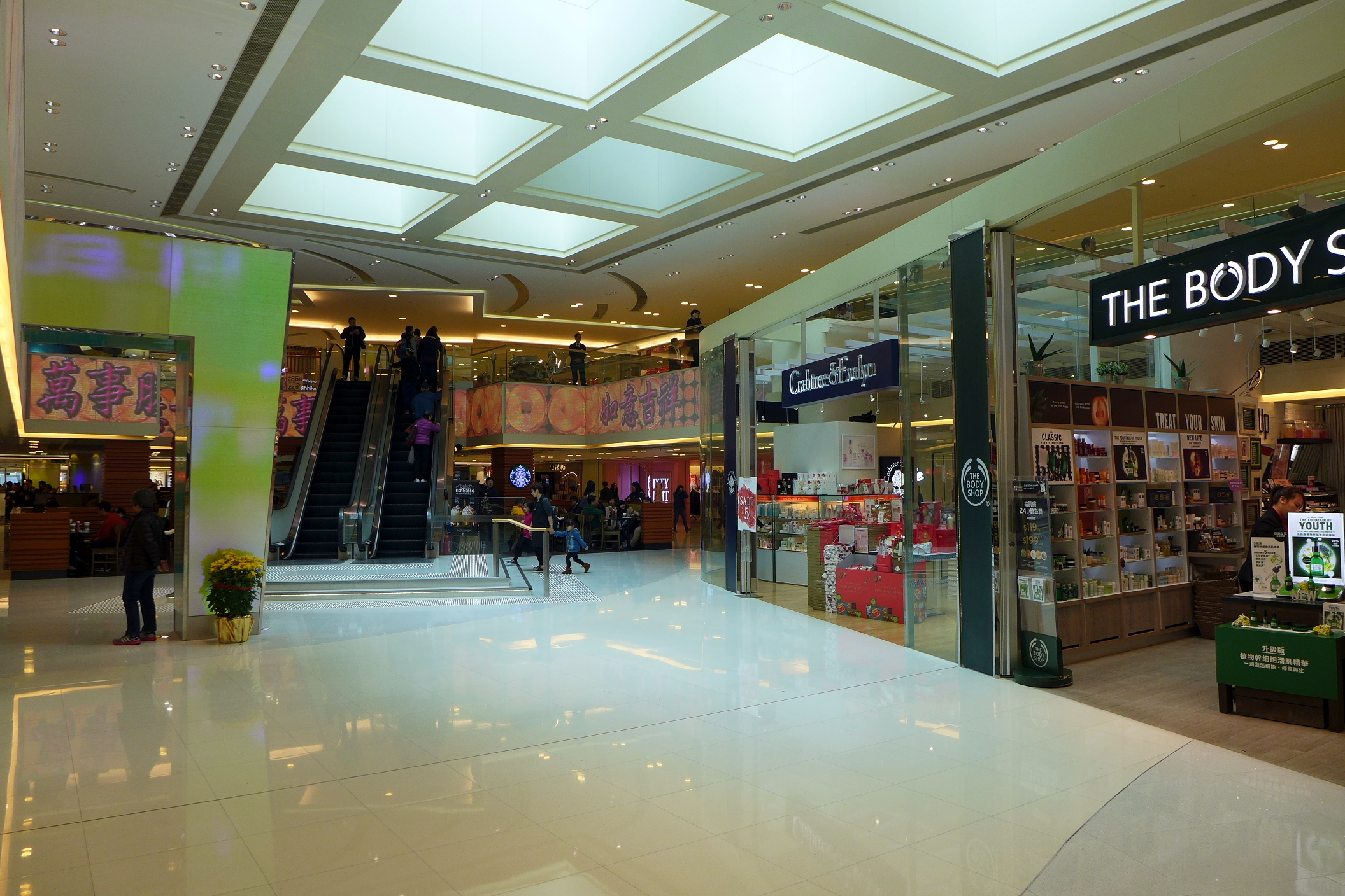 Sunshine City Plaza New Void